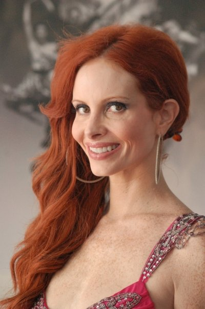 American socialite Phoebe Price at the Cannes Film festival.